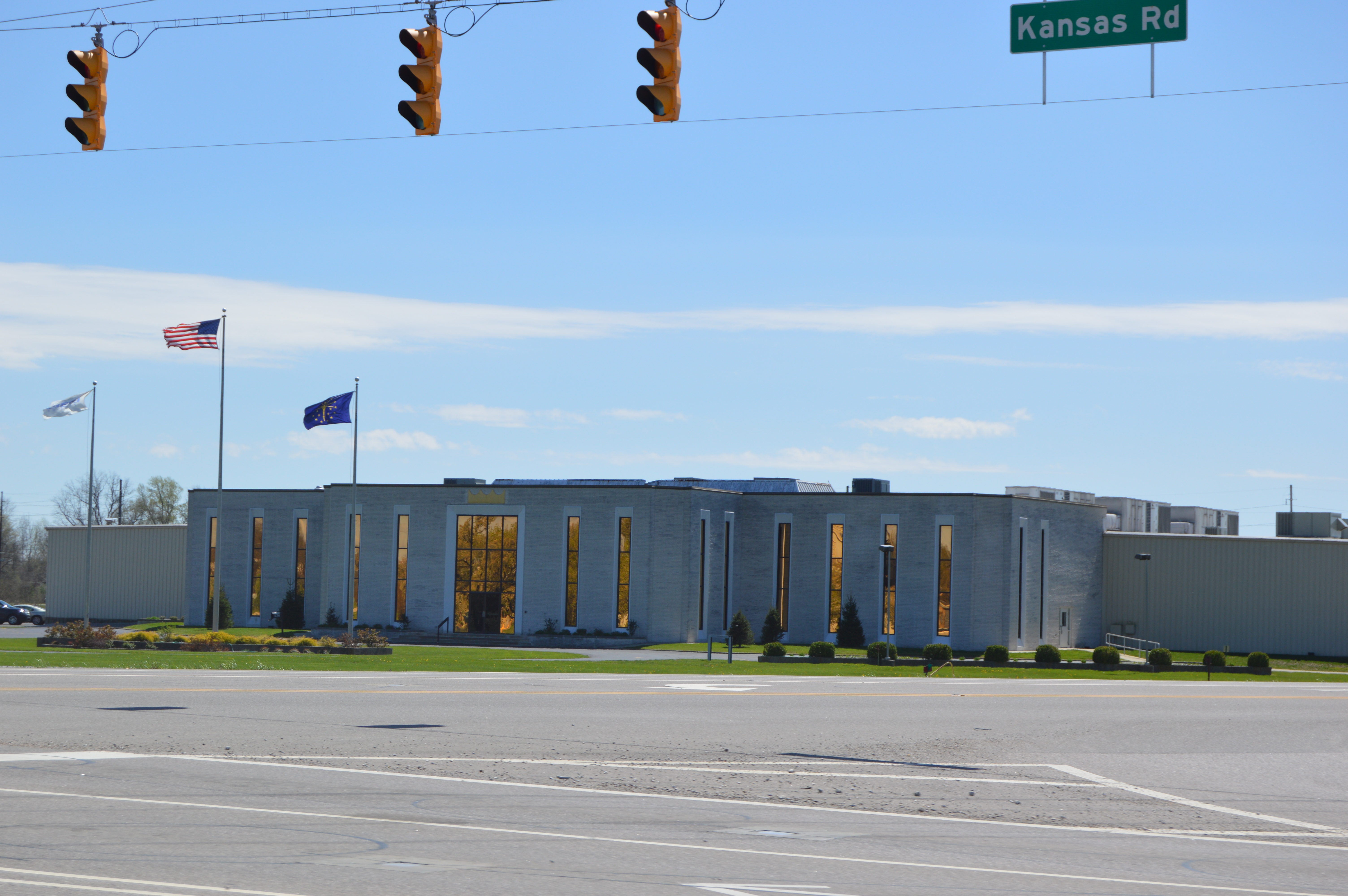 Headquarters of Berry Plastics, located on the southern side of Kansas Road between Oak Hill Road and State Road 57 just east of McCutchanville in Center Township, Vanderburgh County, Indiana, United States.